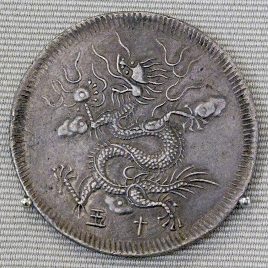 Flying dragon. Phi long (coin) of Minh Mạng, second emperor of the Nguyễn Dynasty of Vietnam, 1833.